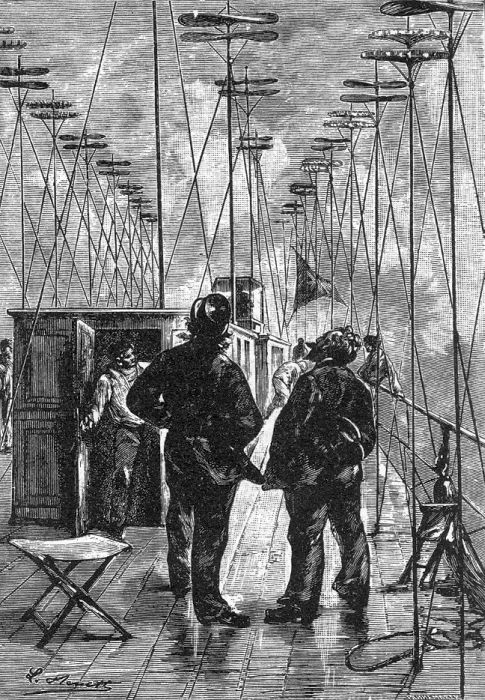 An illustration from Jules Verne's novel "Robur the Conqueror" drawn by Léon Benett.